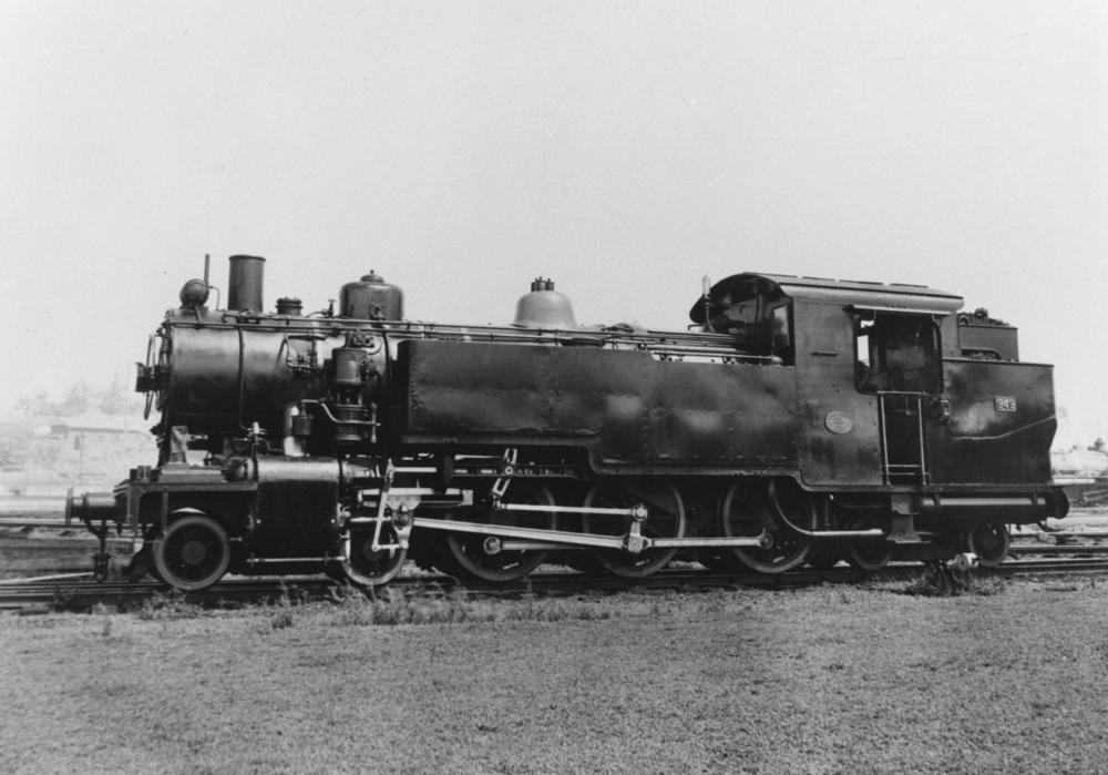 DD17 949 locomotive built in Ipswich between 1948 and 1952 The steam DD17 949 locomotive was one of twelve of this type built in Ipswich. (Description supplied with photograph).